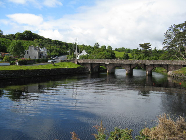 Bridge over Glendun River, Cushendun, Co. Antrim Looking upstream, so this shows the southwest face of the bridge